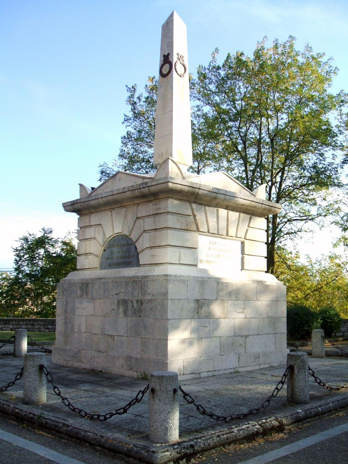 Monumento a El Empecinado (Juan Martín Díez), en Burgos, España